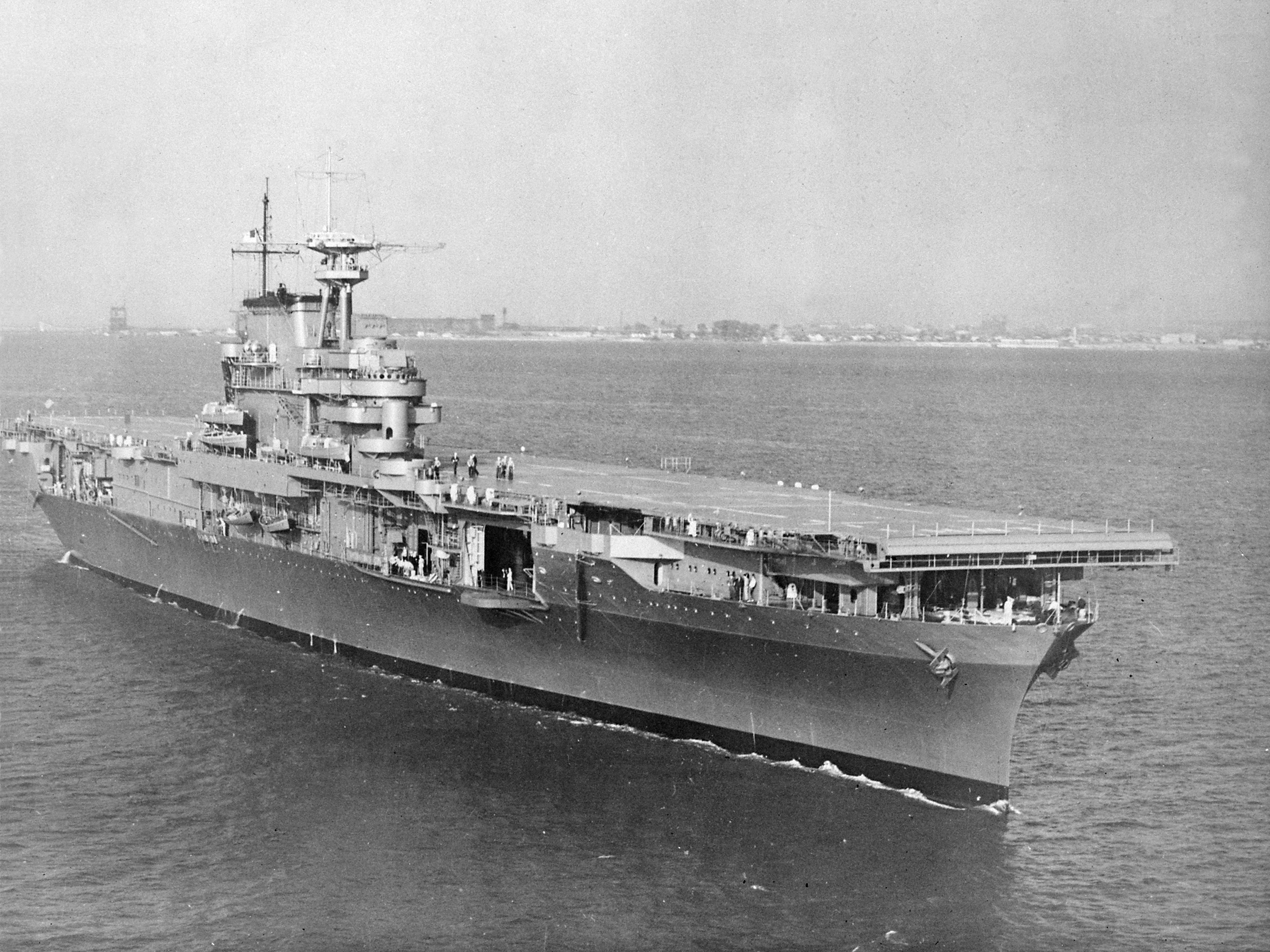 The U.S. Navy aircraft carrier USS Hornet (CV-8) underway in Hampton Roads, Virginia (USA), on 27 October 1941.